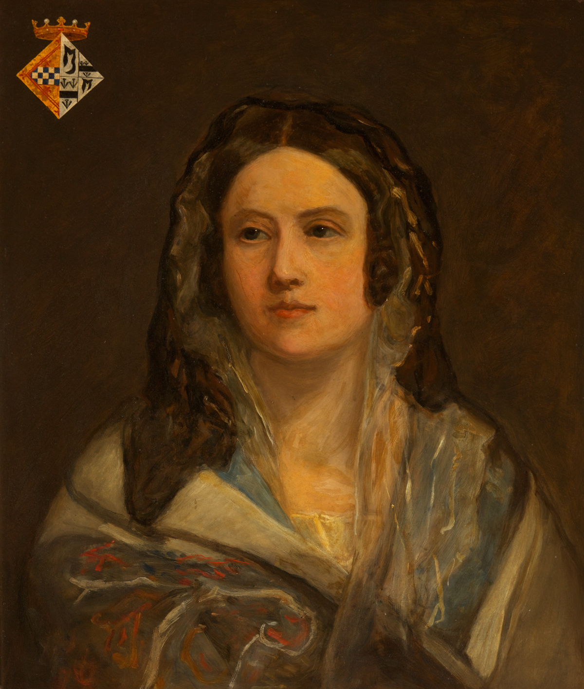 Haynes, Edward Travanyon; Lady Sophia Hastings (d.1859), Second Wife of John Crichton-Stuart, 2nd Marquess of Bute; Castell Coch